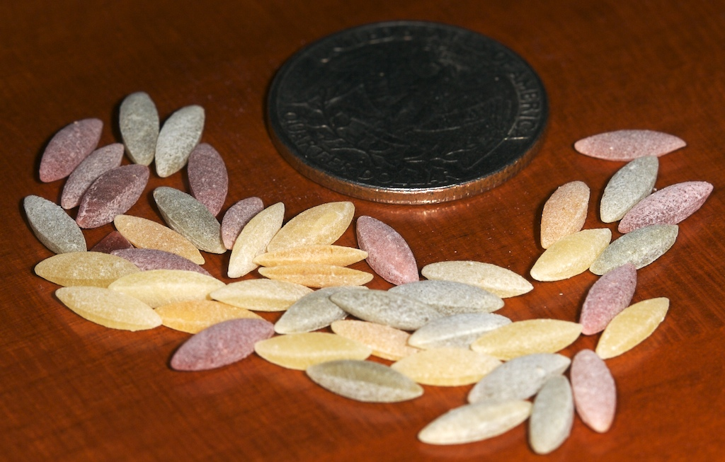 Uncooked rainbow orzo pasta, with a US quarter for scale.